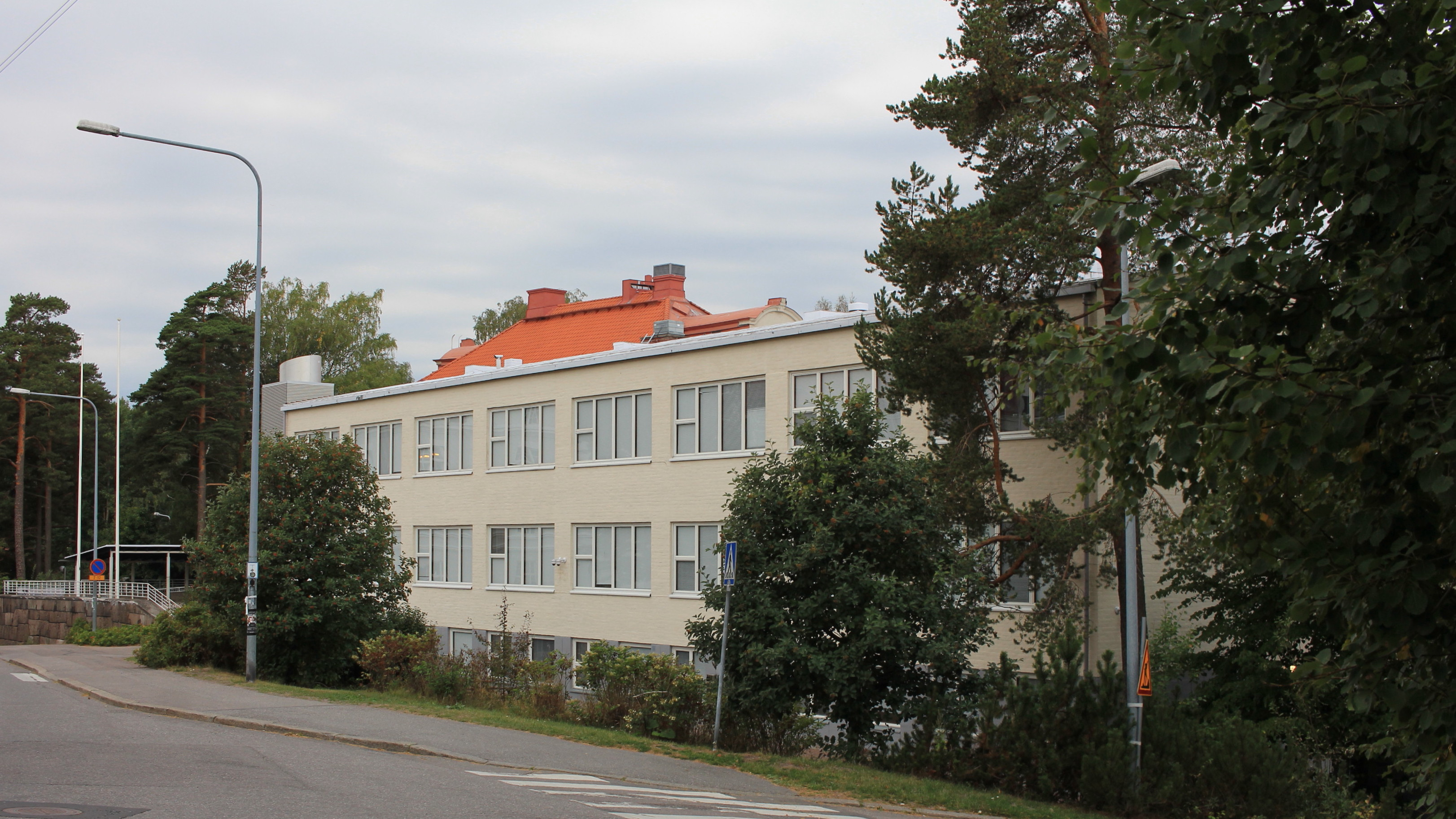 Brändö gymnasium and Brändö lågstadieskola, Kulosaari, Helsinki, Finland. - Brändö gymnasium facade (front).